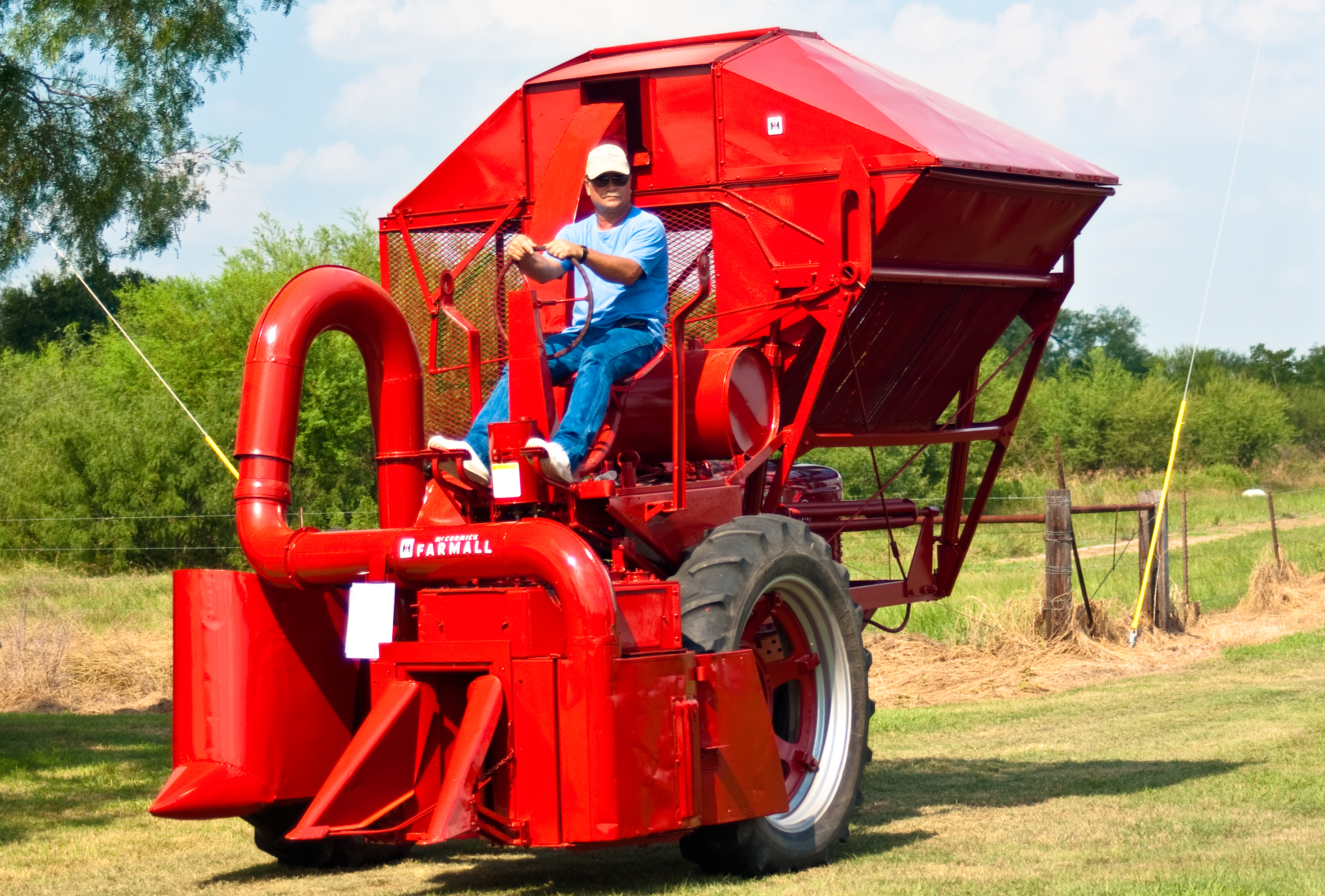 An IHC McCormick Farmall cotton harvester, Nada, Texas, USA